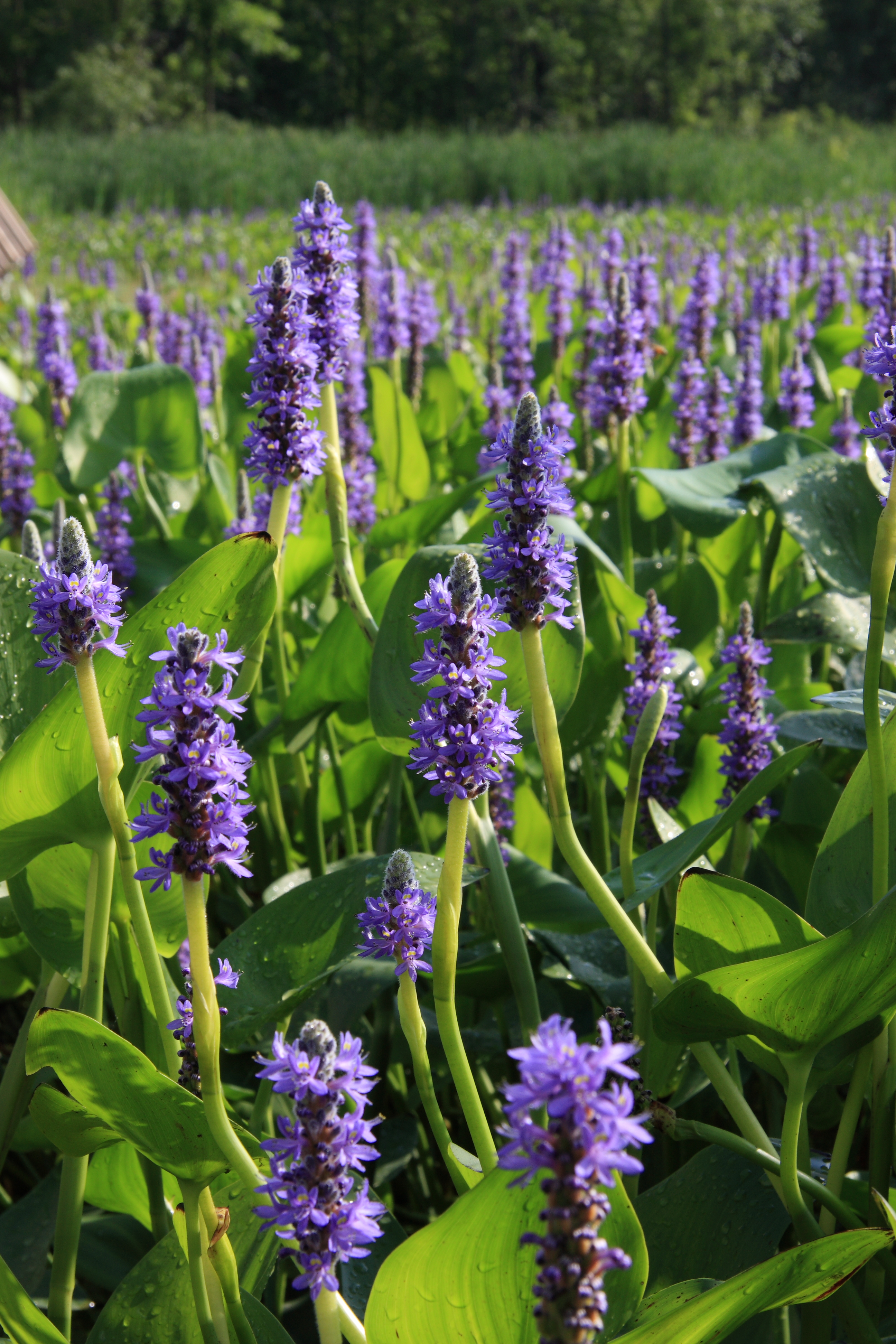 Pontederia cordata, Plaisance National Park, Quebec, Canada